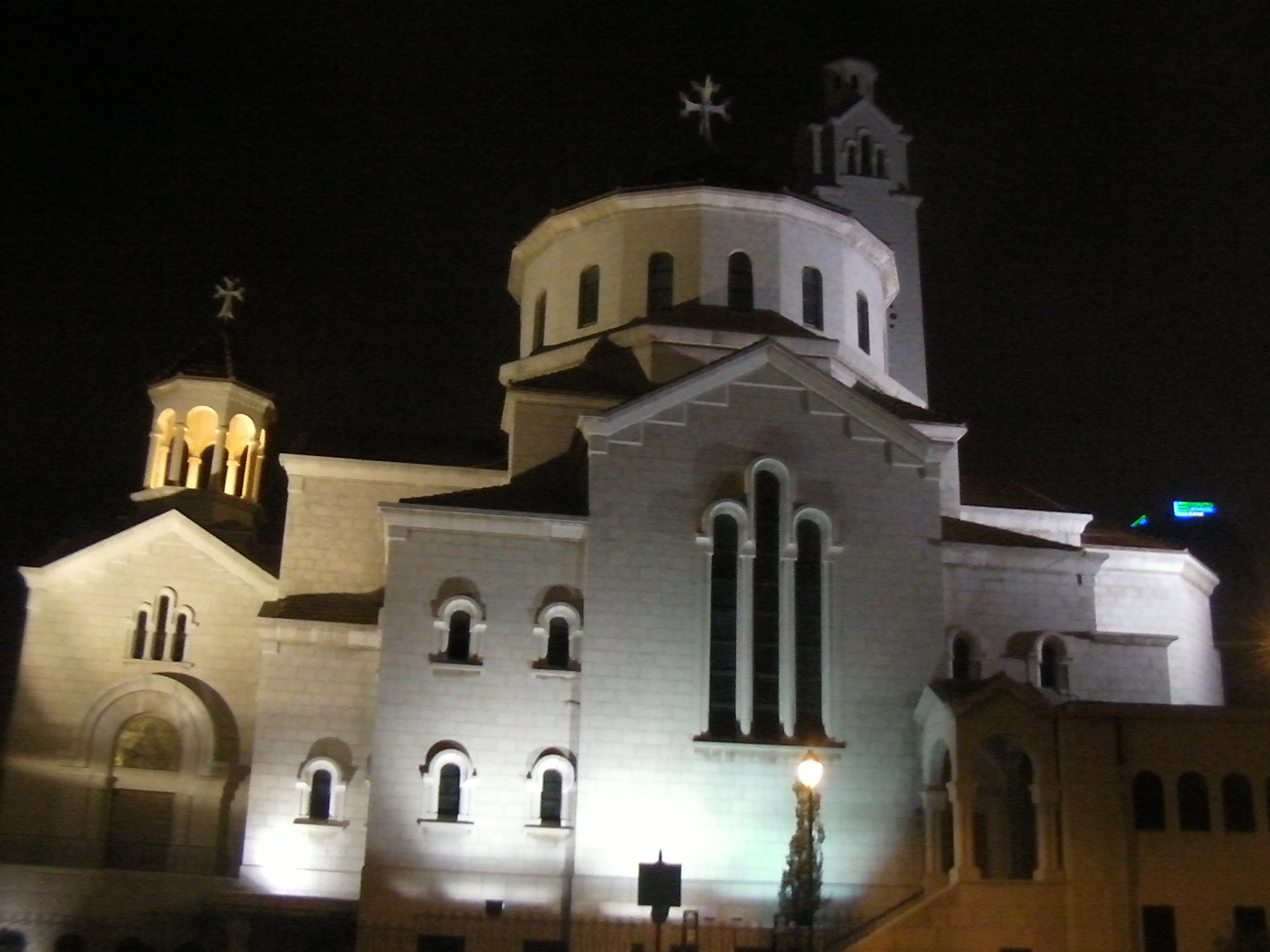 St Elie - St Gregory Armenian Catholic Cathedral in Beirut, Lebanon. Elevation 94 meters.